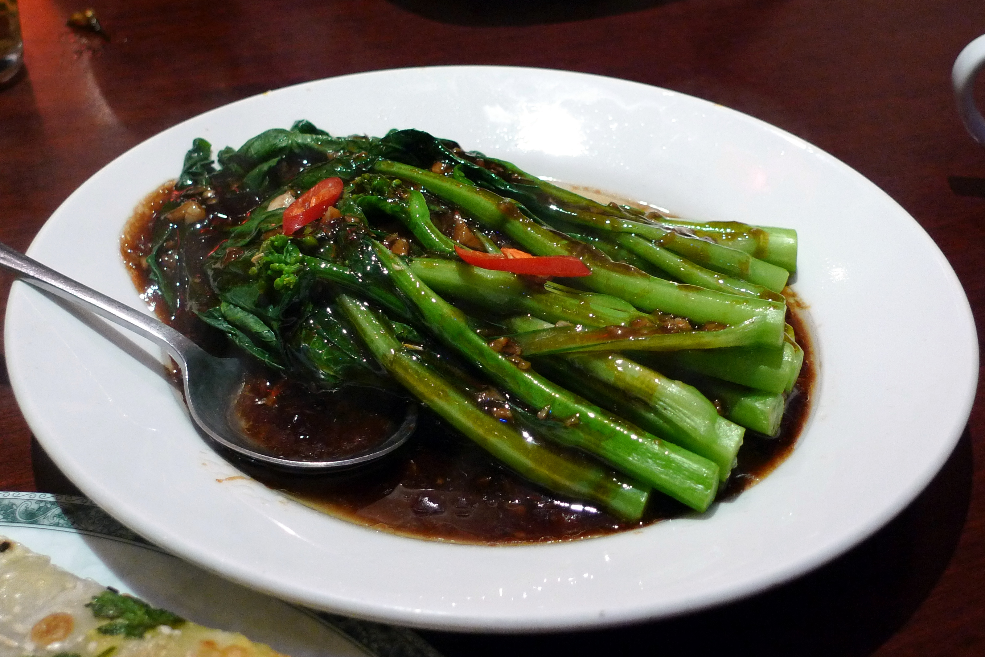 Gai lan (stir-fry Chinese broccoli/kale). At Taste of Beijing, Frith Street.